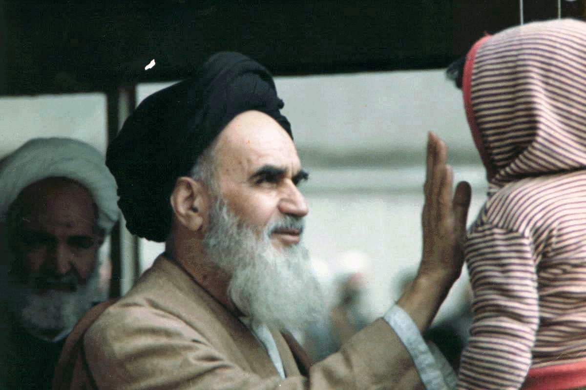 Ruhollah Khomeini and child.